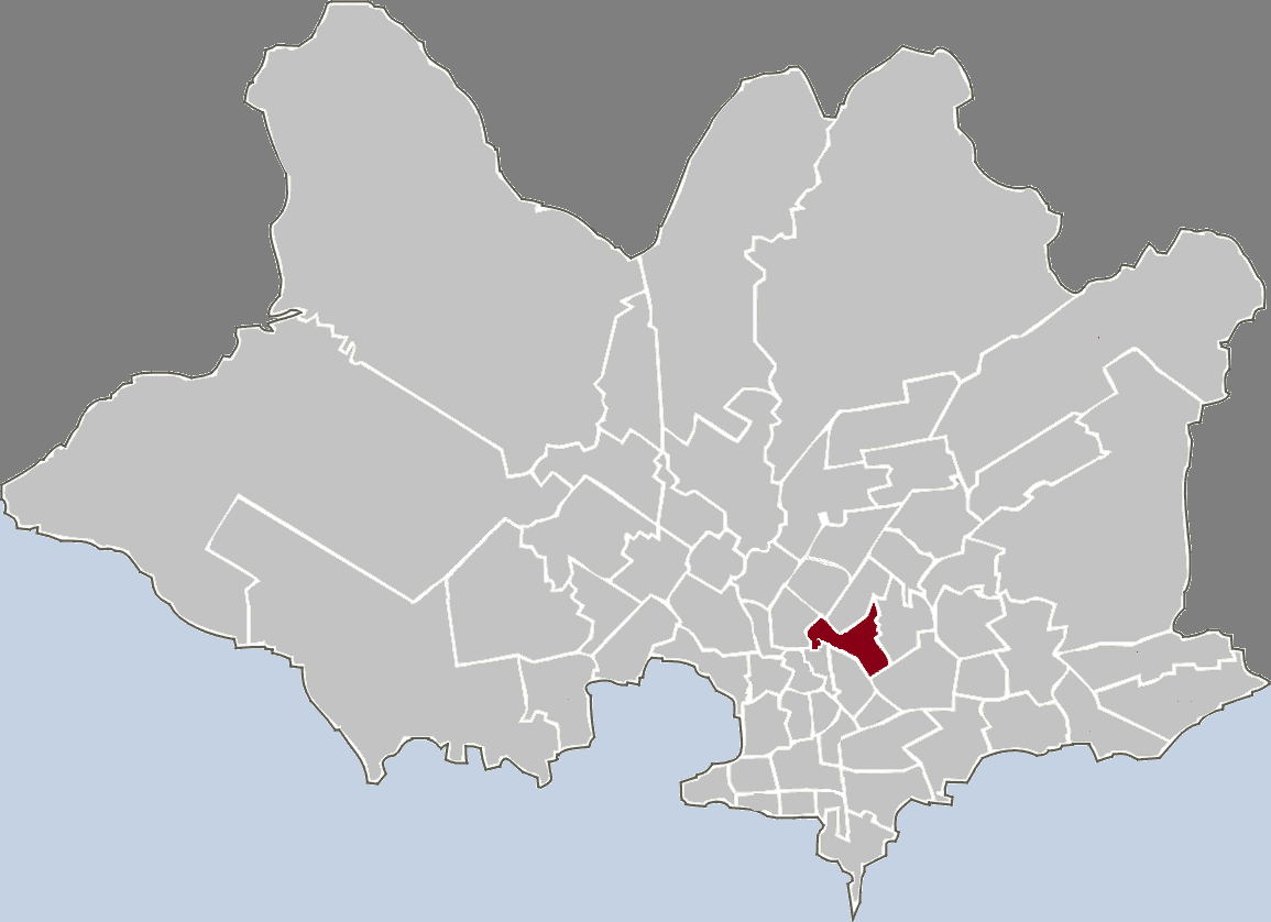 Map highlighting the given barrio in Montevideo.